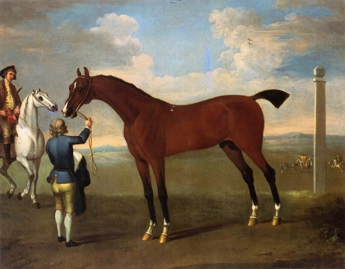 British racehorses of the 18th century